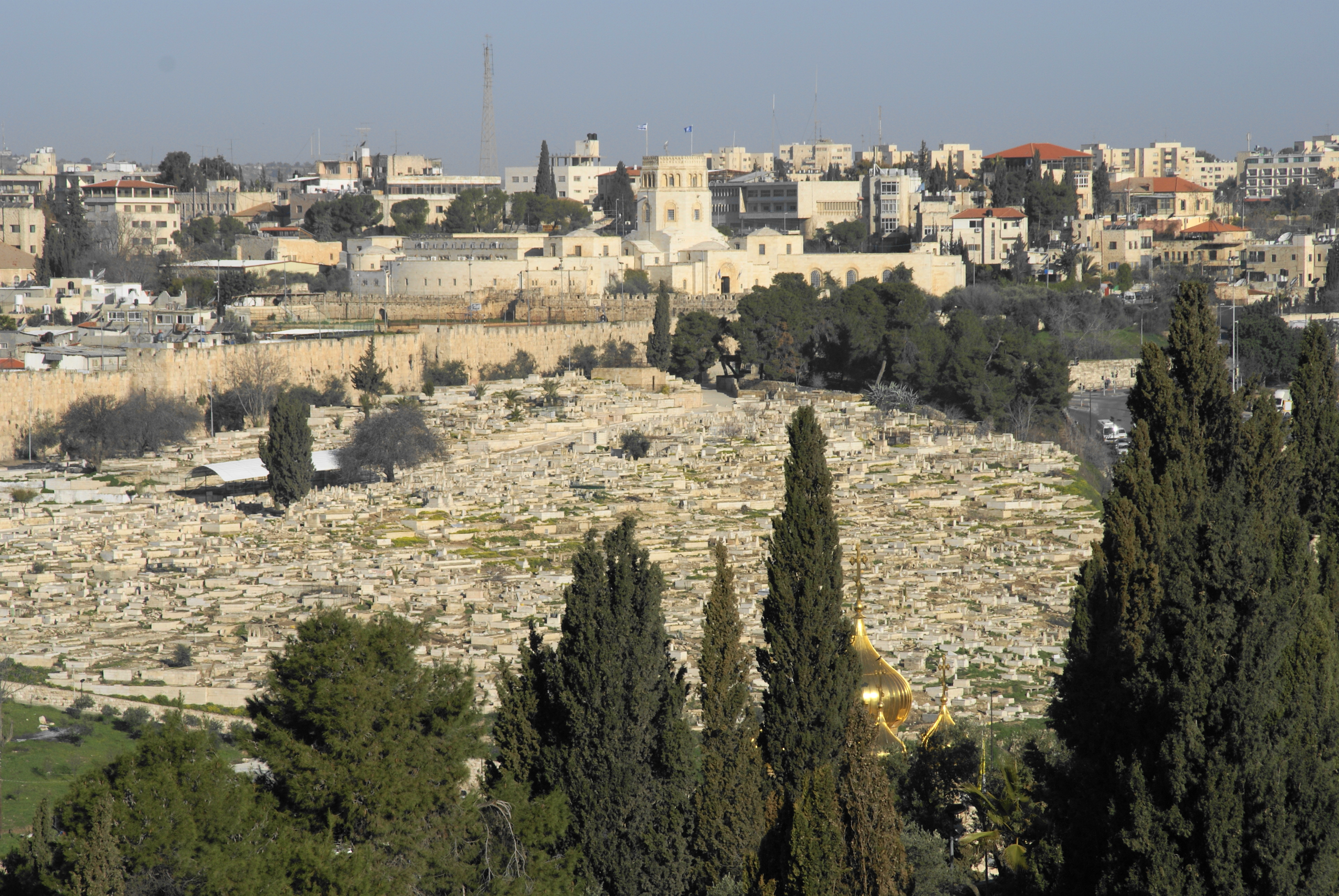 The Rockefeller Museum in Jerusalem, in front the Maria-Magdalena-Church